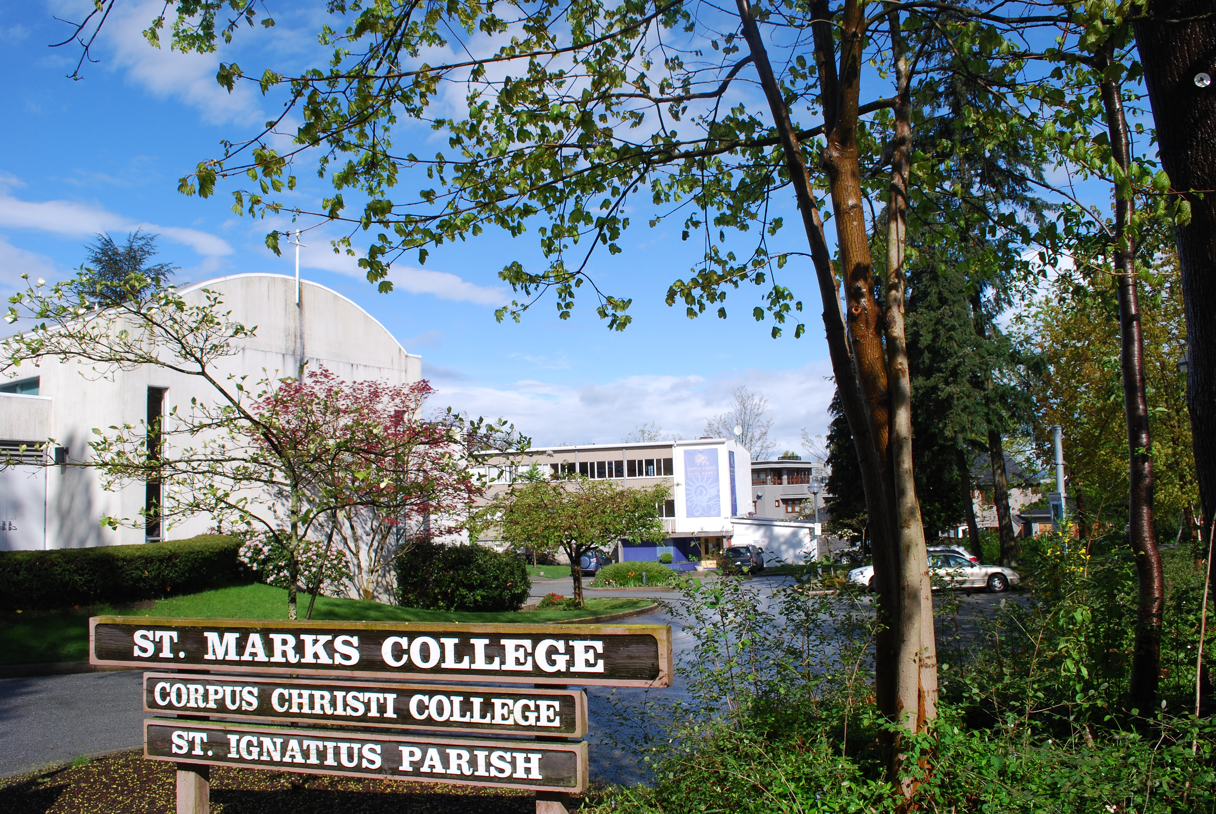 Outdoor photo of the Corpus Christi/St. Mark's college, taken from the personal collections of the college photos